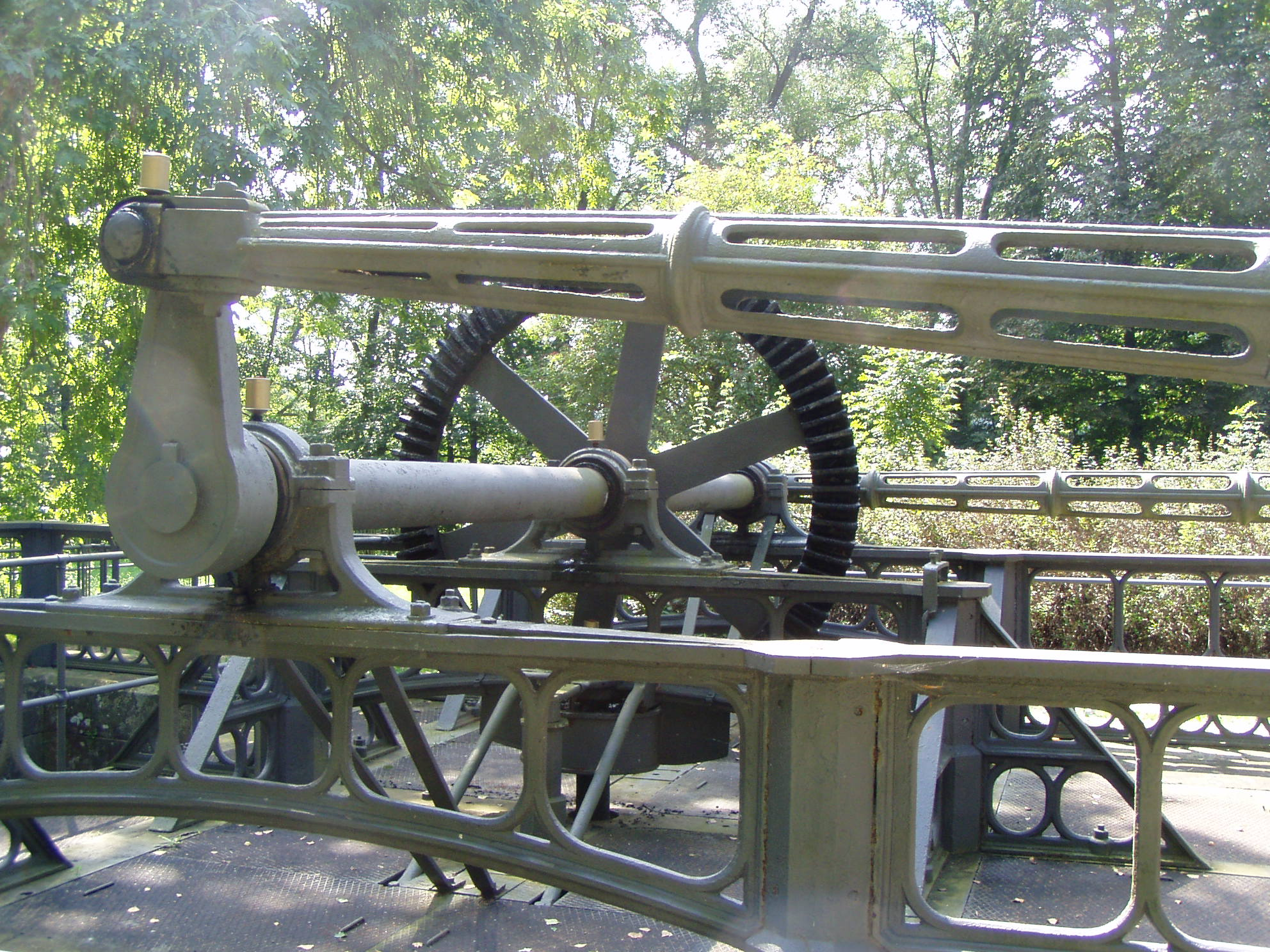 Brine pump of 1848 in Bad Kissingen, Germany